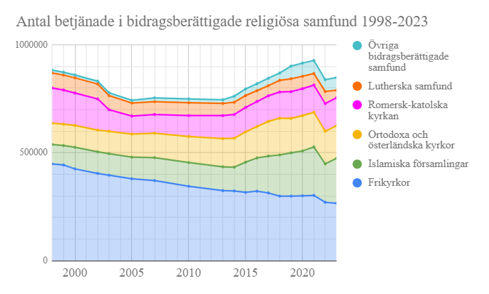 Number of members and registered participants over time in religious organizations that received state funding in Sweden 1997-2018 (Swedish church excluded). Data source: sst.